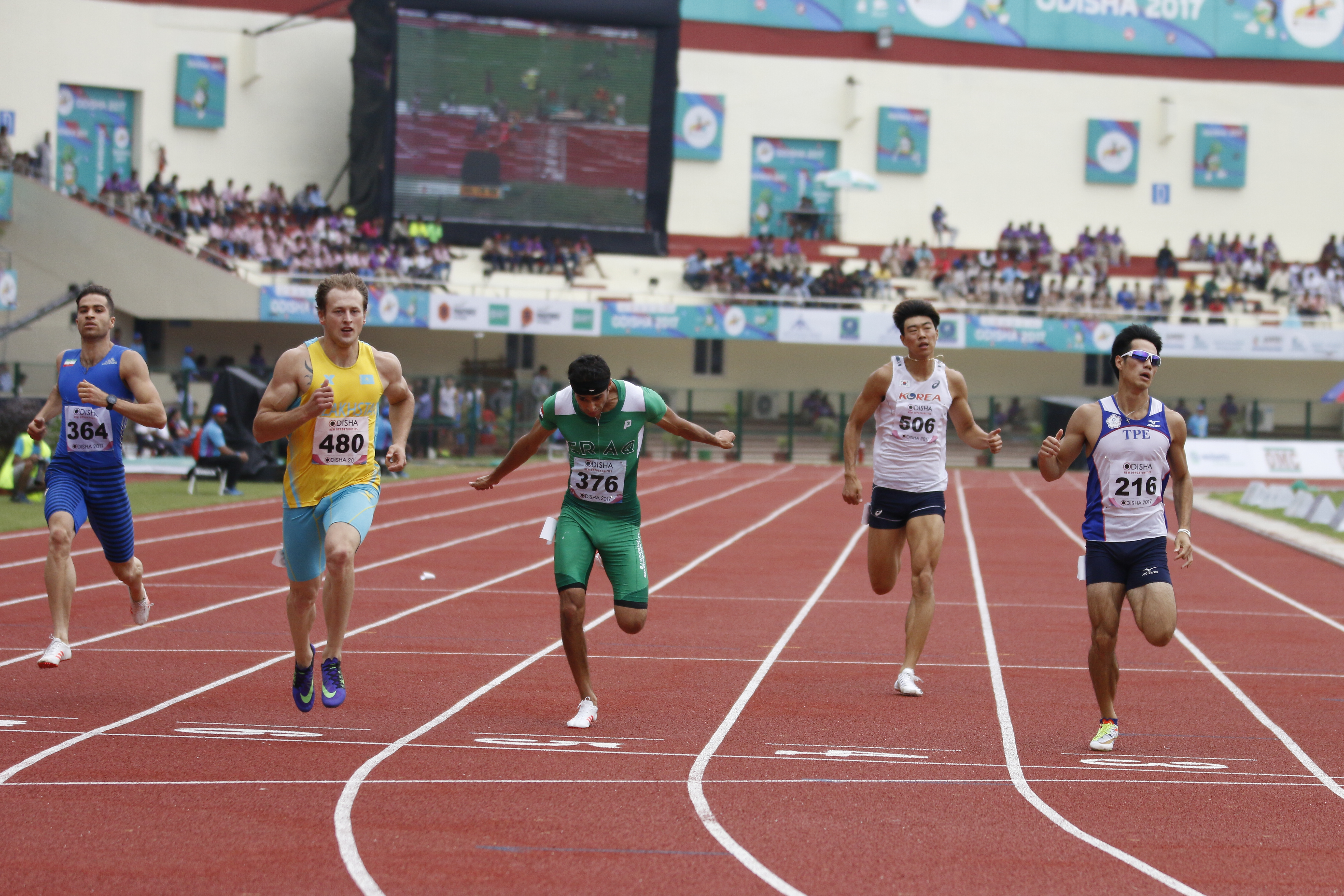 Athletes during 22nd Asian Athletics Championships in Bhubaneswar.